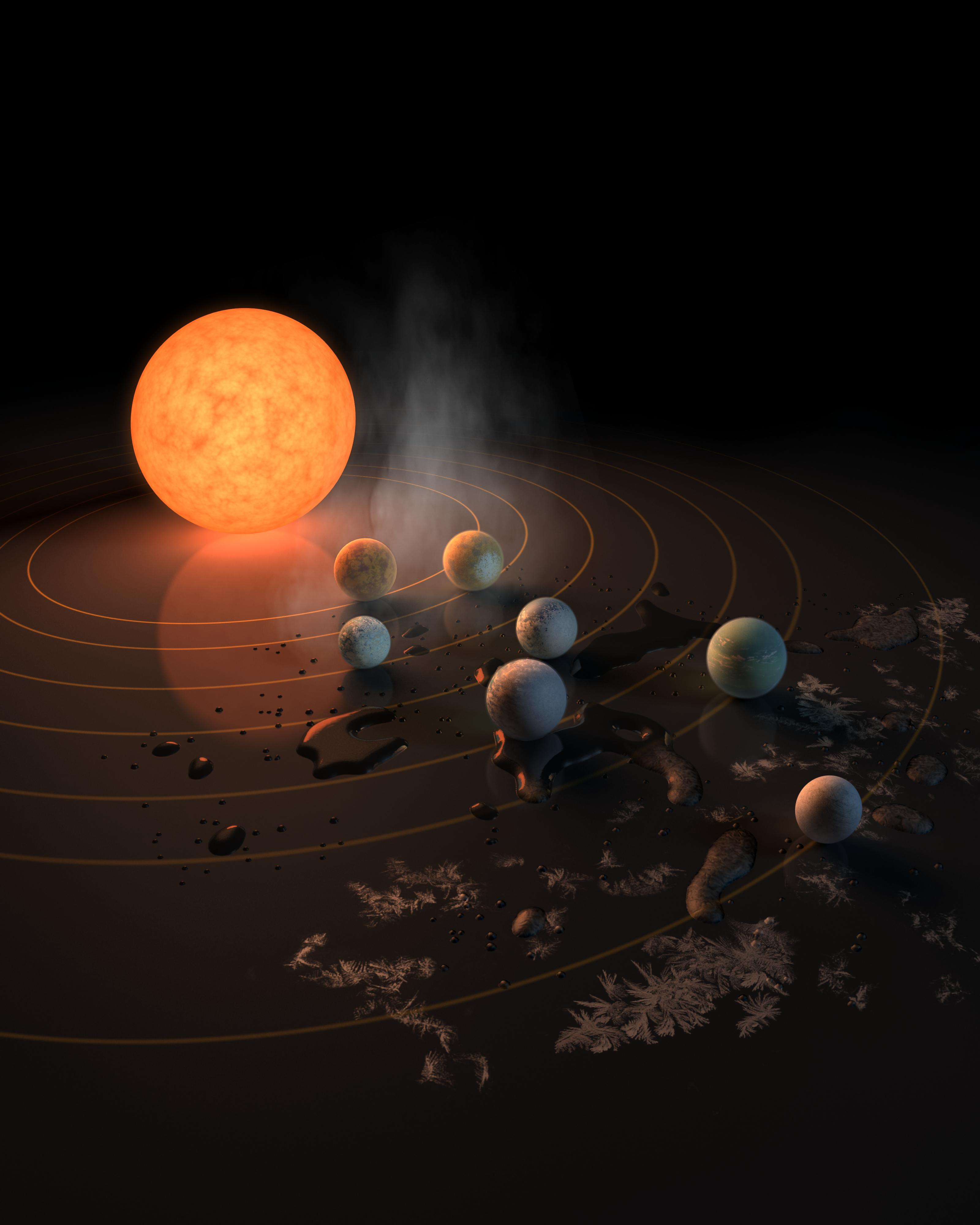 This artist's concept appeared on the Feb. 23, 2017 cover of the journal Nature announcing that the TRAPPIST-1 star, an ultra-cool dwarf, has seven Earth-size planets orbiting it. Any of these planets could have liquid water on them. Planets that are farther from the star are more likely to have significant amounts of ice, especially on the side that faces away from the star. The system has been revealed through observations from NASA's Spitzer Space Telescope and the ground-based TRAPPIST (TRAnsiting Planets and PlanetesImals Small Telescope) telescope, as well as other ground-based observatories. The system was named for the TRAPPIST telescope. NASA's Jet Propulsion Laboratory, Pasadena, California, manages the Spitzer Space Telescope mission for NASA's Science Mission Directorate, Washington. Science operations are conducted at the Spitzer Science Center at Caltech, also in Pasadena. Spacecraft operations are based at Lockheed Martin Space Systems Company, Littleton, Colorado. Data are archived at the Infrared Science Archive housed at Caltech/IPAC. Caltech manages JPL for NASA. For more information about the Spitzer mission, visit and